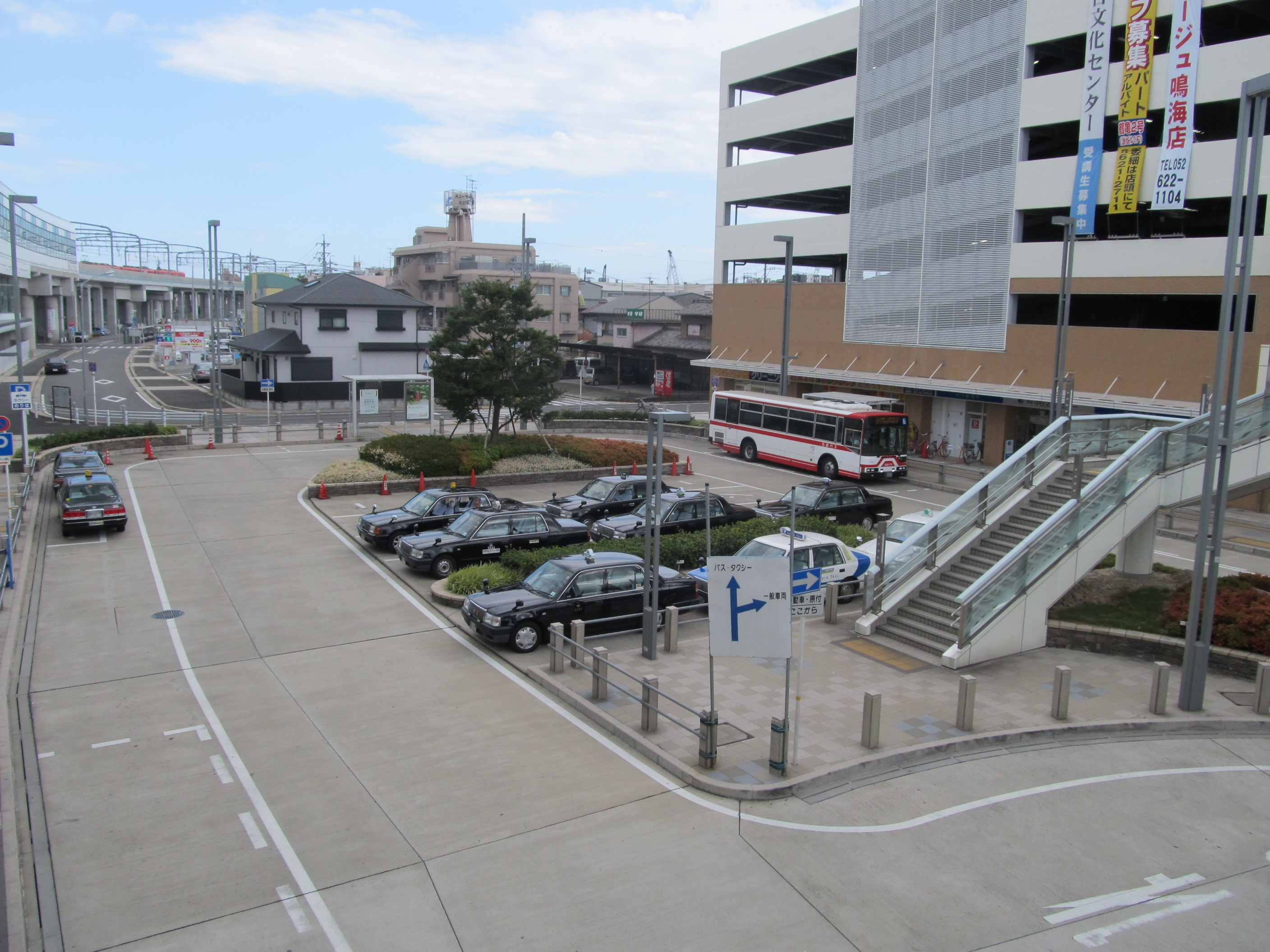 Nagoya Railroad Nagoya Main Line Narumi Station Plaza